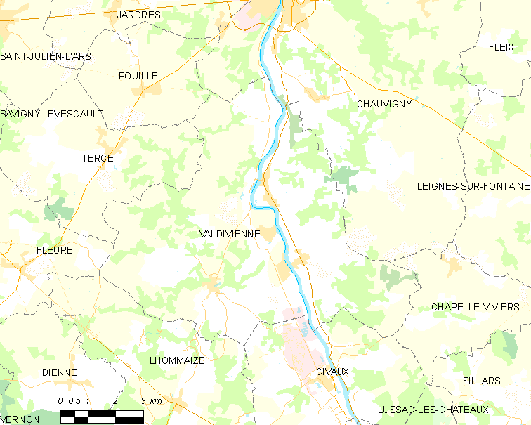 Map of French municipality Valdivienne